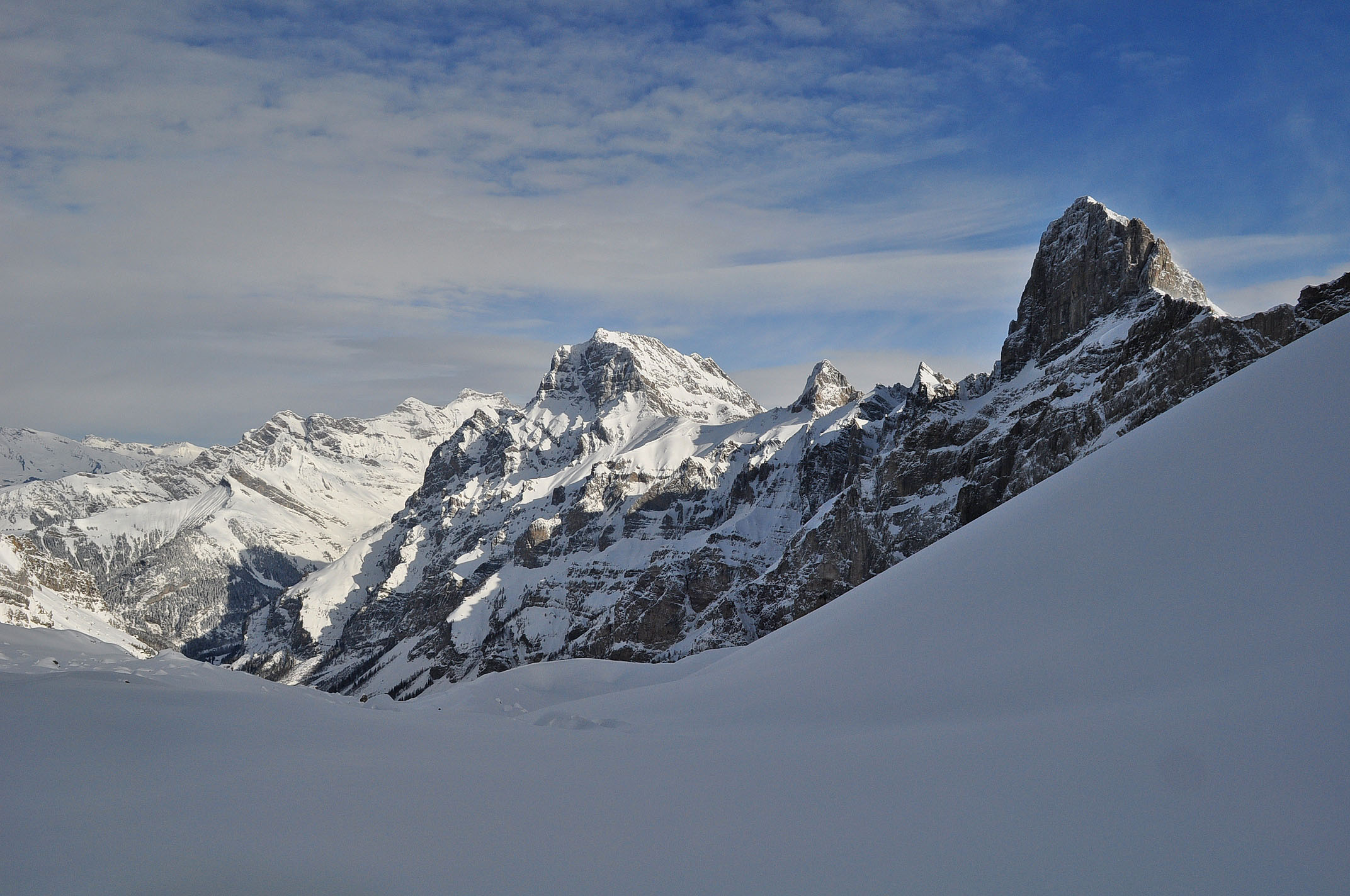 View from the Vallon de Nant (Vaud). From left to right: Grand Muveran, Petit Muveran, Dent Favre.